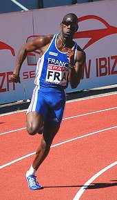 Leslie Djhone Coupe d'europe d'athletisme Annecy 2008